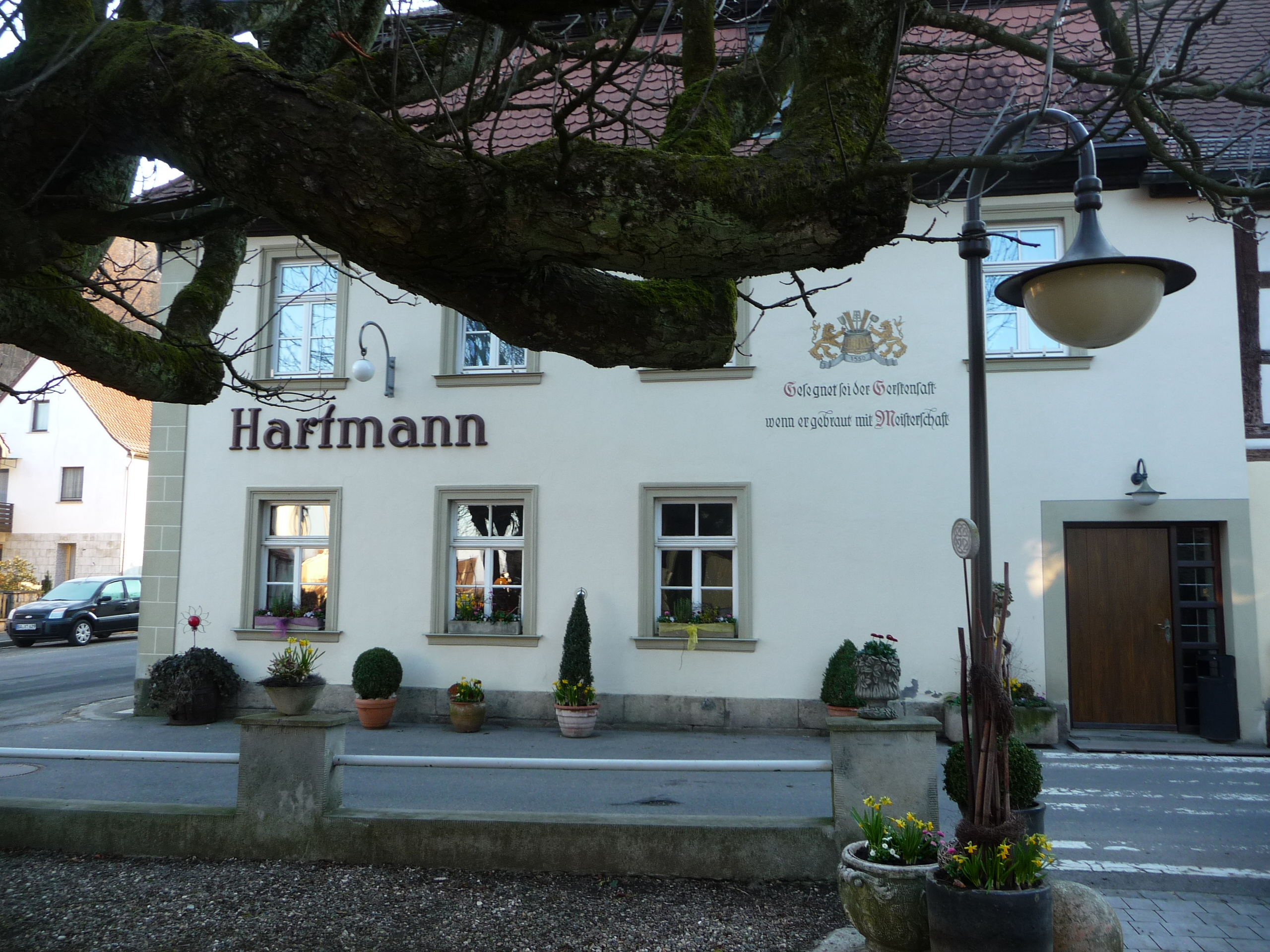 Würgau